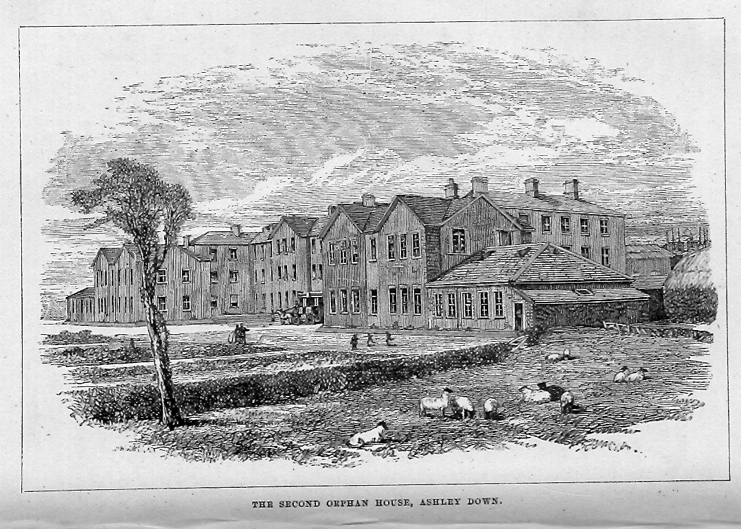 line drawing of New Orphan House No 2